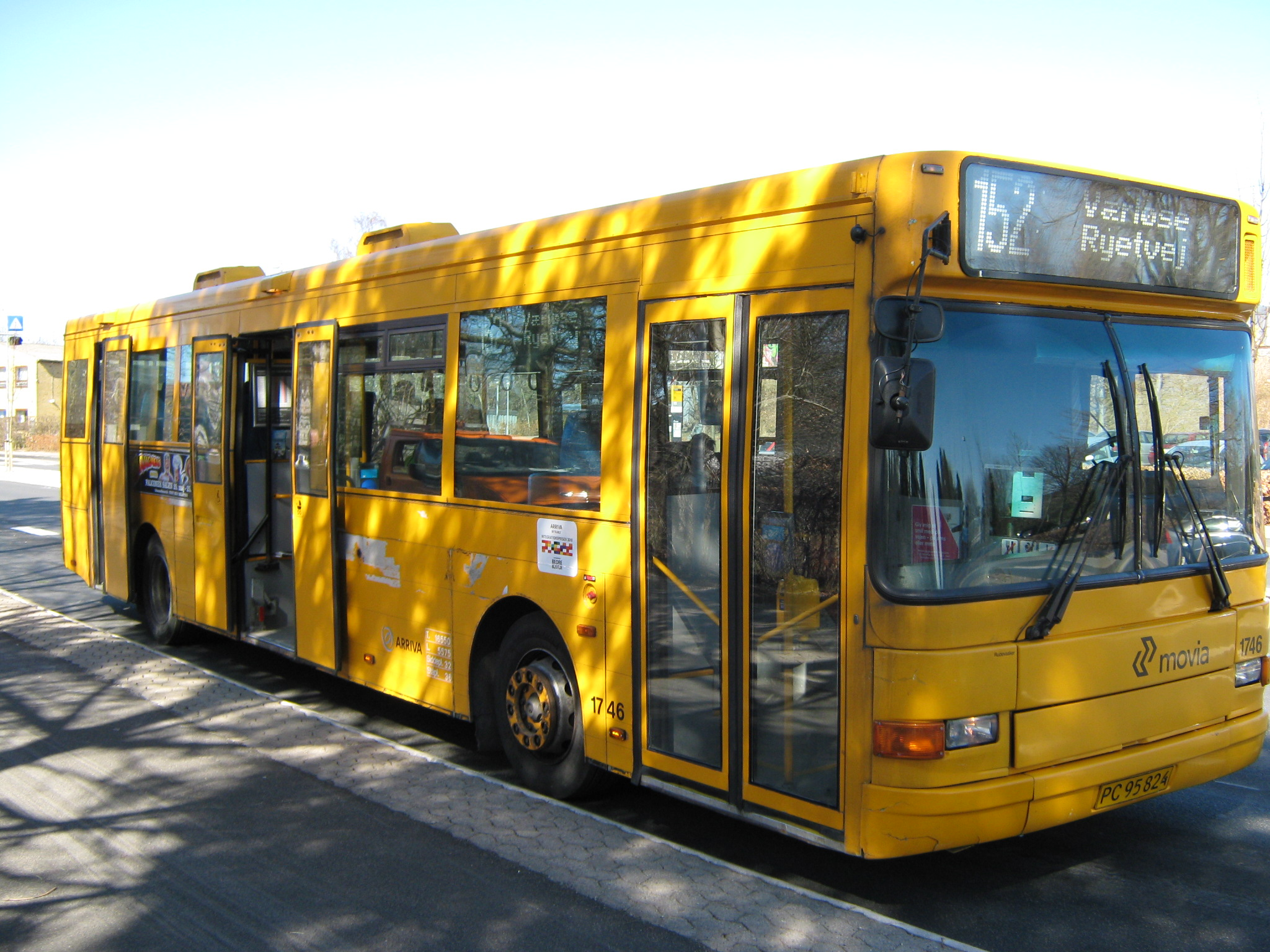 Aabenraa bus (#1746, reg. PC 95 824) with Volvo B10BLE chassis as Movia route 152 toward Værløse. Here seen at Værløse station. Arriva Danmark A/S from Kastrup operator.